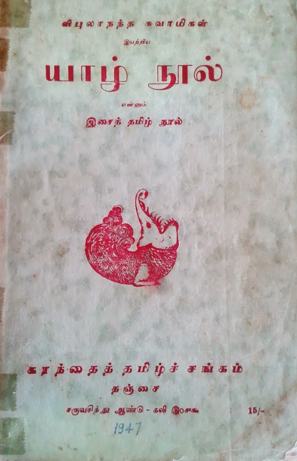 Book cover of Yazh Nool, research book on Yazh, the oldest musical instrument of Tamils. Published in 1947.